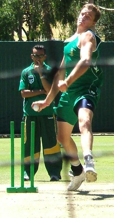 Morne Morkel at a training session at the Adelaide Oval